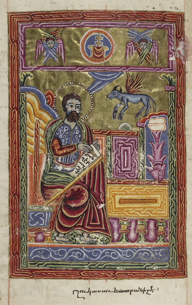 St. Luke. Painted miniature, Gospel head-piece. From Illuminated Armenian Gospels with Eusebian canons. Shelfmark MS. Arm. d.13.